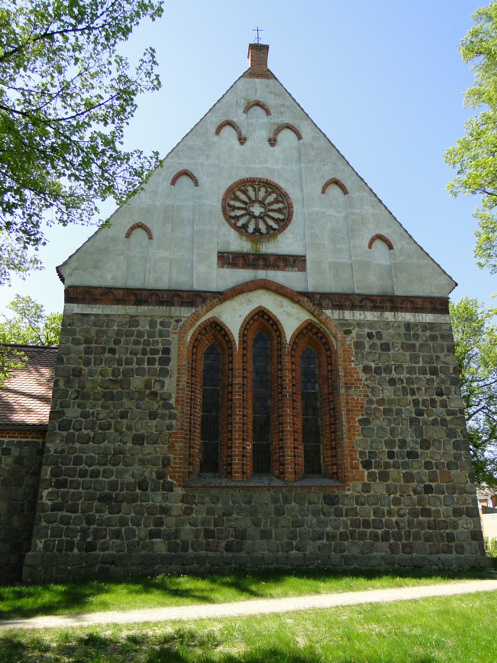 Church St. Petri in Woldegk, district Mecklenburg-Strelitz, Mecklenburg-Vorpommern, Germany